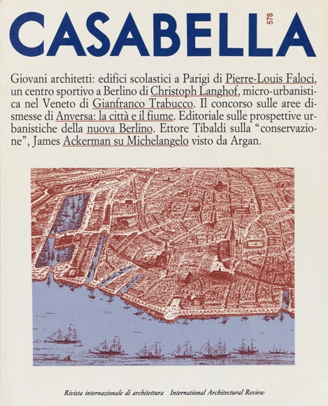 Cover of Casabella magazine #578, April 1991. Arnoldo Mondadori Editore, Mondadori Group.